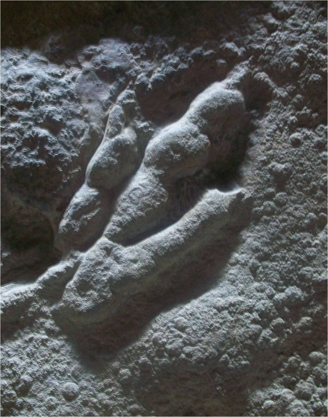 A negative footprint of the ichnospecies Grallator cuneatus at the Amherst Museum of Natural History.